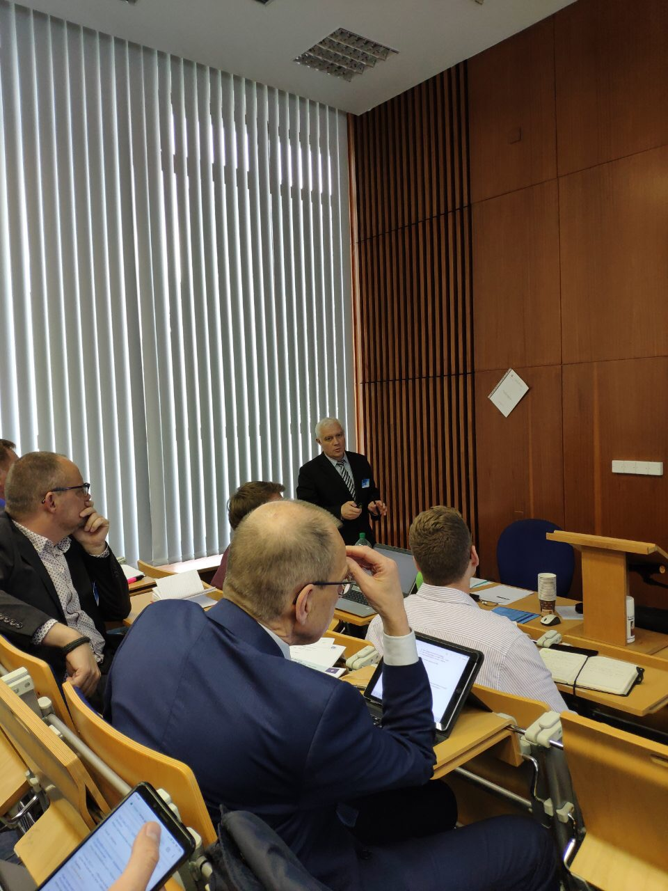 AVT290 Meeting in Liptovski Mikulash, May 2019.